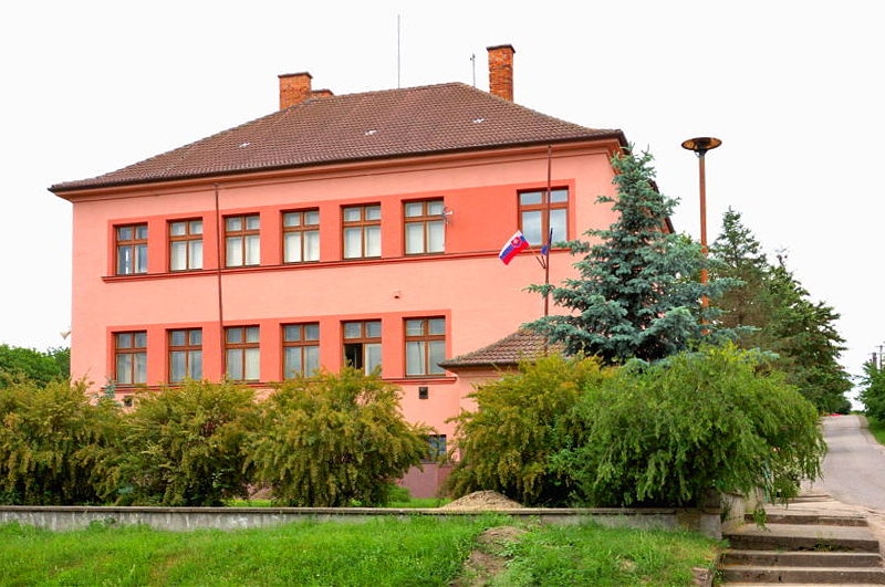 Municipal office in Petrova Ves